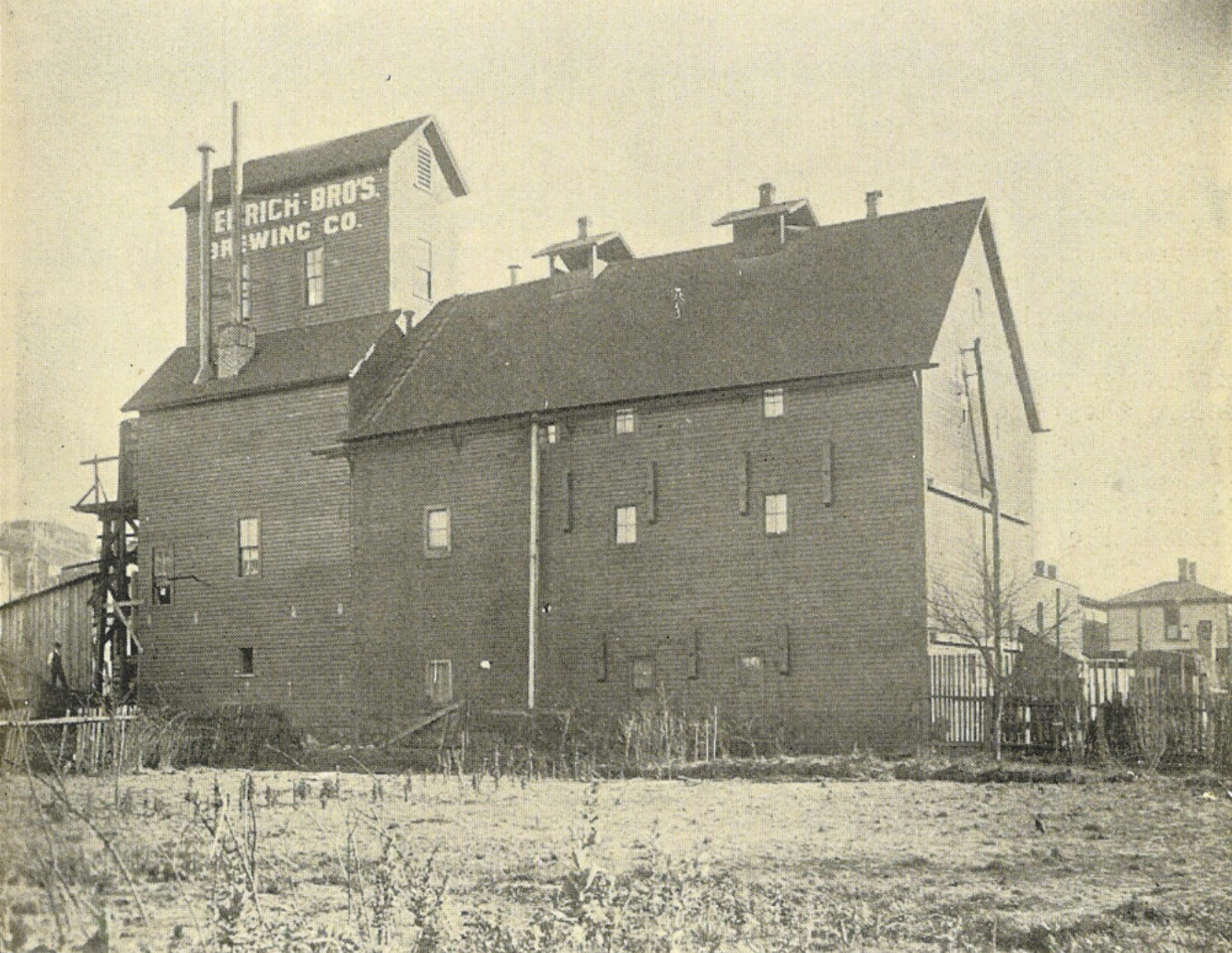 "The brewery of Hemrich Bros., near Lake Union," from brochure Seattle and the Orient (1900). According to information in the accompanying text, the Hemrich Brothers (Alvin and Louis) were also associated with the Seattle Brewing & Malting Company, makers of Rainier Beer, and one of its predecessors, the Bay View Brewing Company. They incorporated as Hemrich Brewing Company in 1899, bought the old Slorah steam brewing plant on South Lake Union, and converted it to brew lager. A history of the Hemrich Brewery on says they started in 1897, and says that prior to their ownership the brewery was known as North Pacific Brewery as well as Slorah Brewery. They are more precise about the location than is the Seattle and the Orient brochure: it was located on Howard Ave. N. (now Yale Ave. N.), between Republican and Mercer streets. This would place it in the Cascade neighborhood, about a block and a half south of what are now the Mercer Street ramps of Interstate 5. (Lake Union would have been larger in those days: there has been quite a bit of fill.) The replacement for this building can be seen at Image:Seattle - 1275 Mercer 01.jpg.